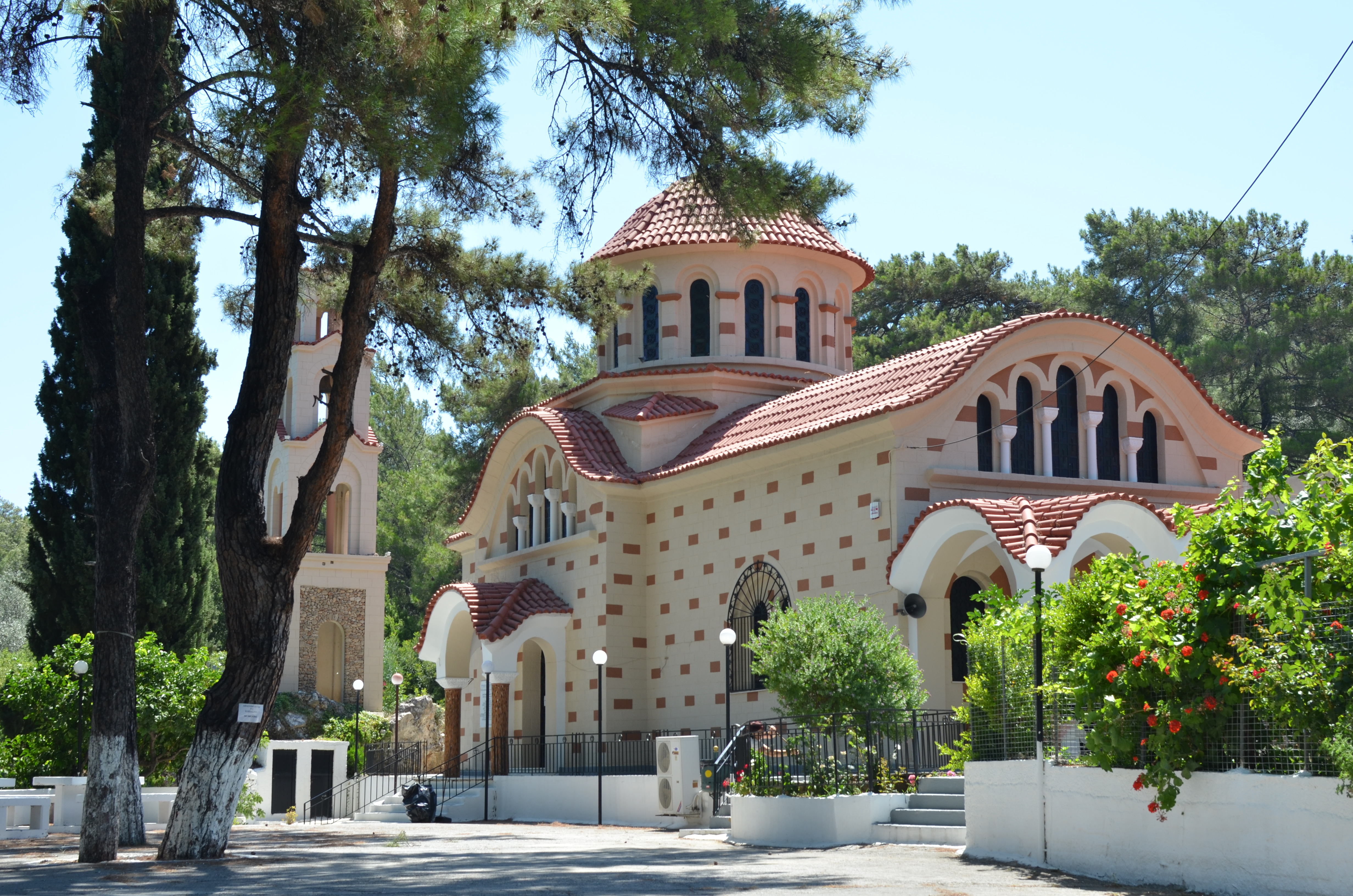 St. Nektarios chapel near Arhipoli, Rhodes.